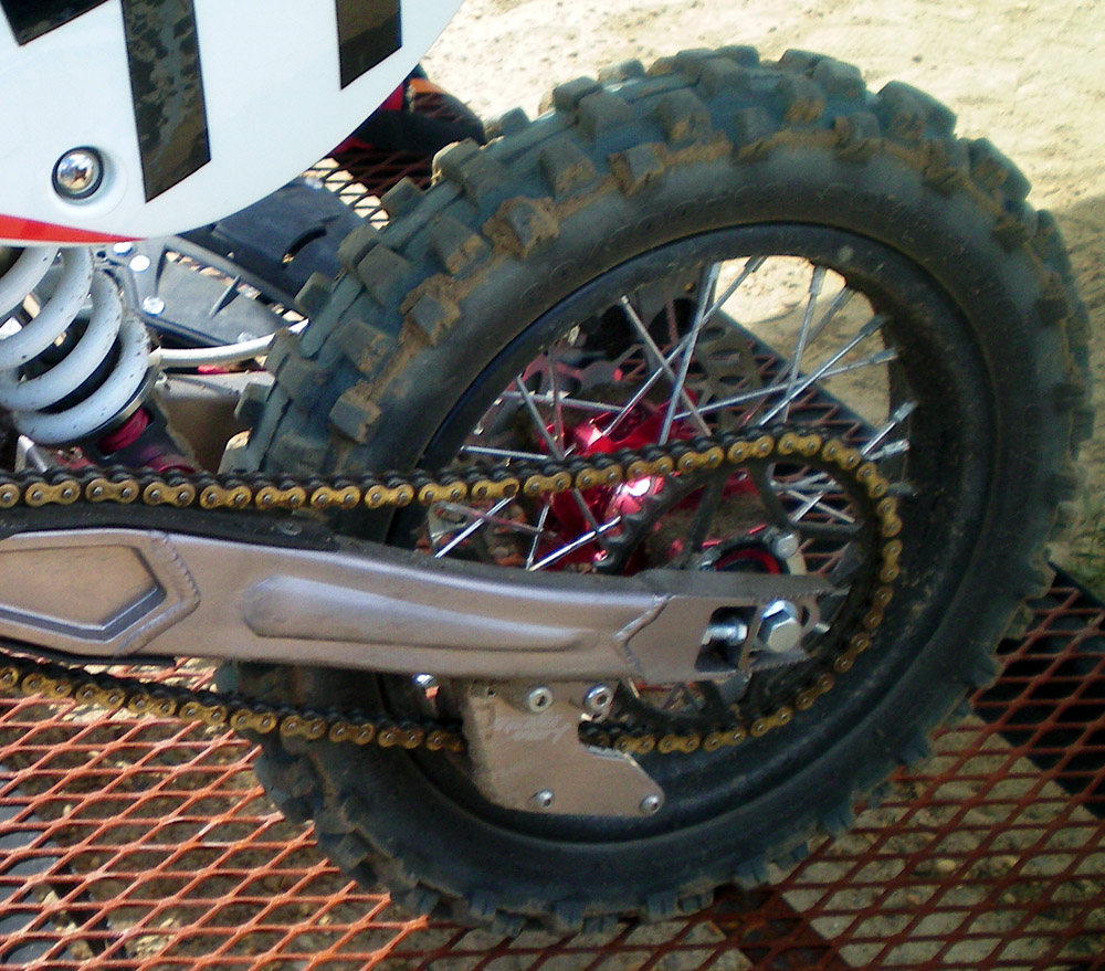 Photograph of a knobby rear tire on a motovert pitbike taken at New Jersey Off Road Vehicle Park in 2008.